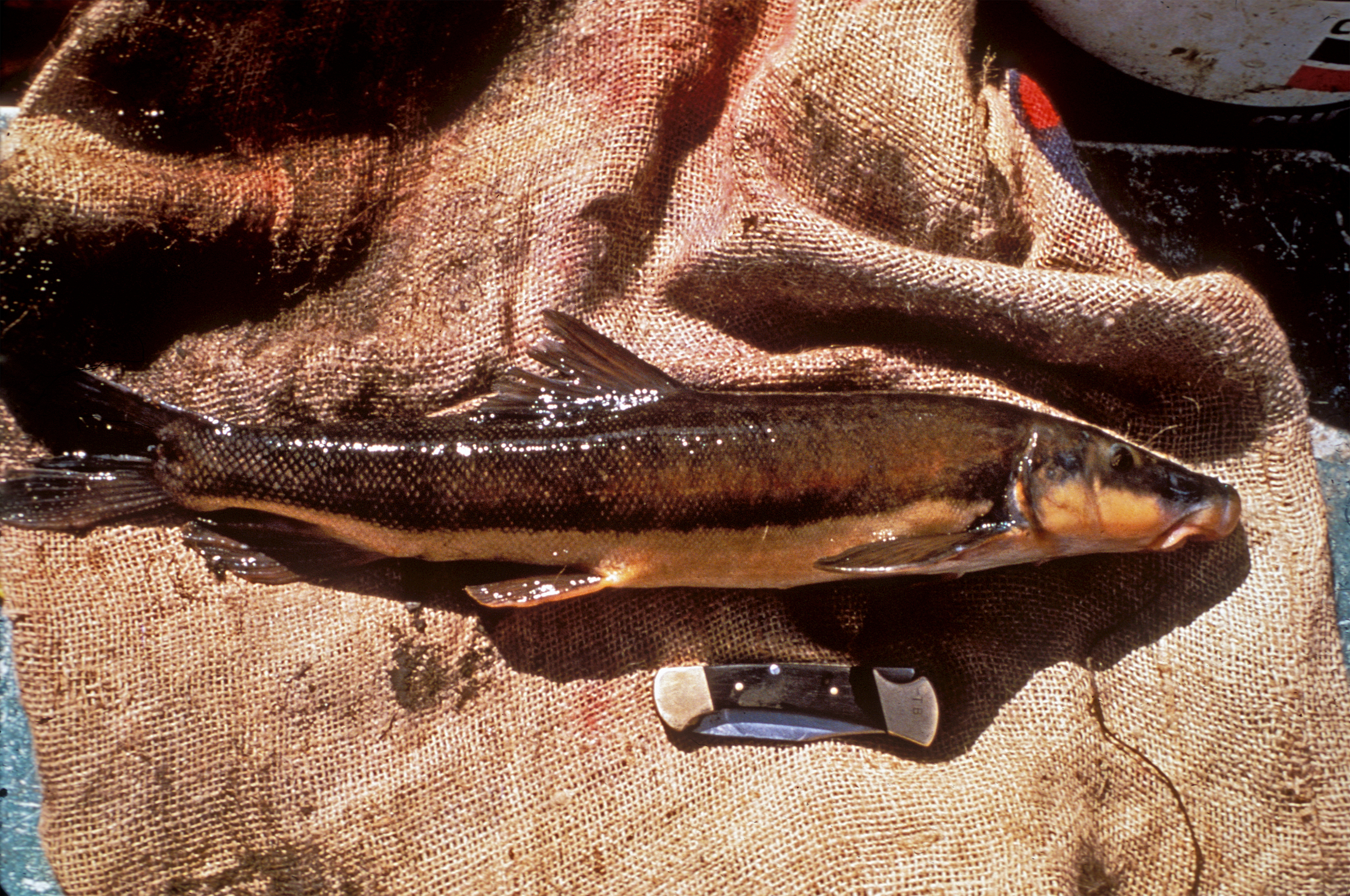 Longnose sucker (Catostomus catostomus catostomus), Coville River, Alaska